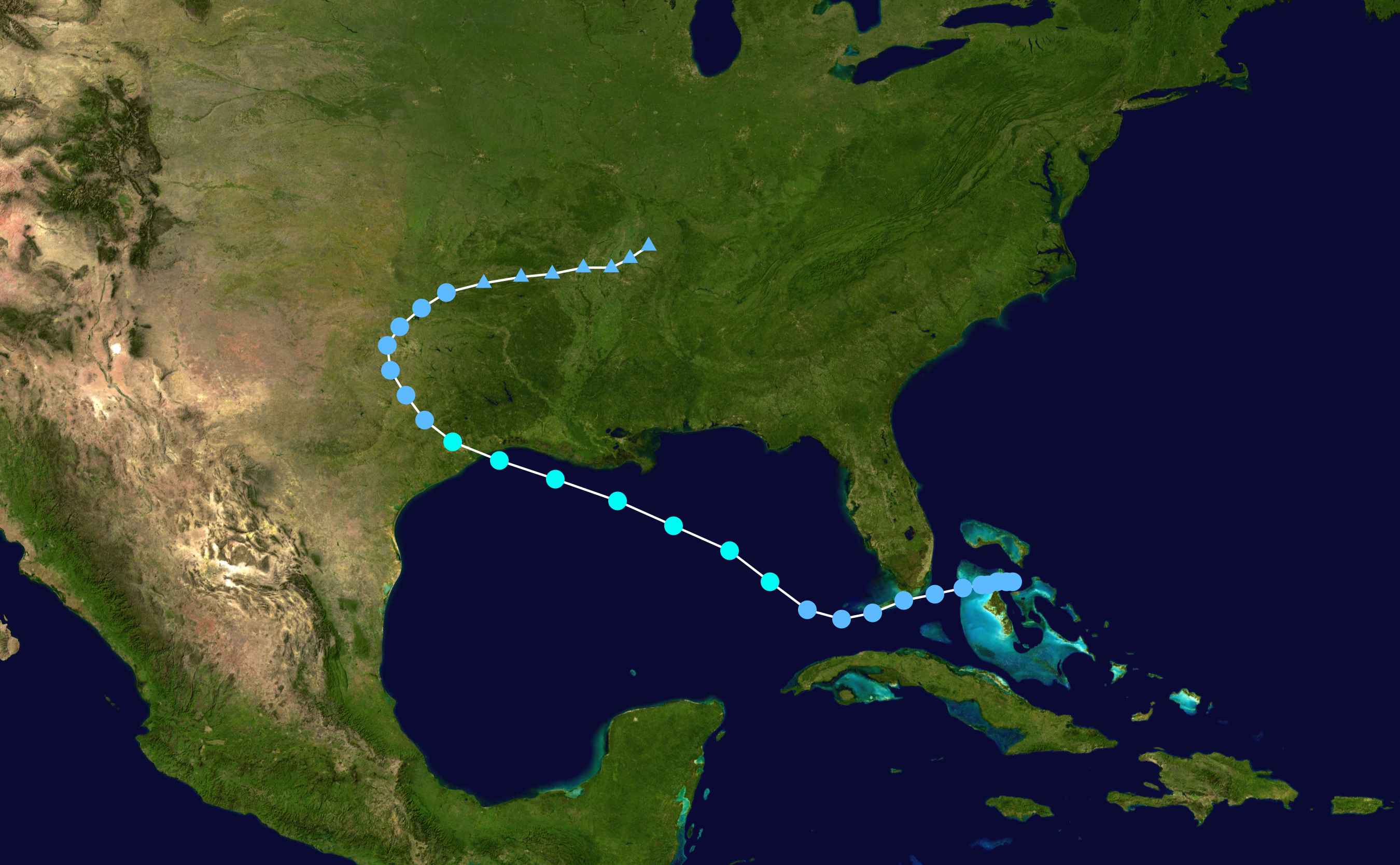 Tropical Storm Felice (1970) track. Uses the color scheme from the Saffir-Simpson Hurricane Scale.